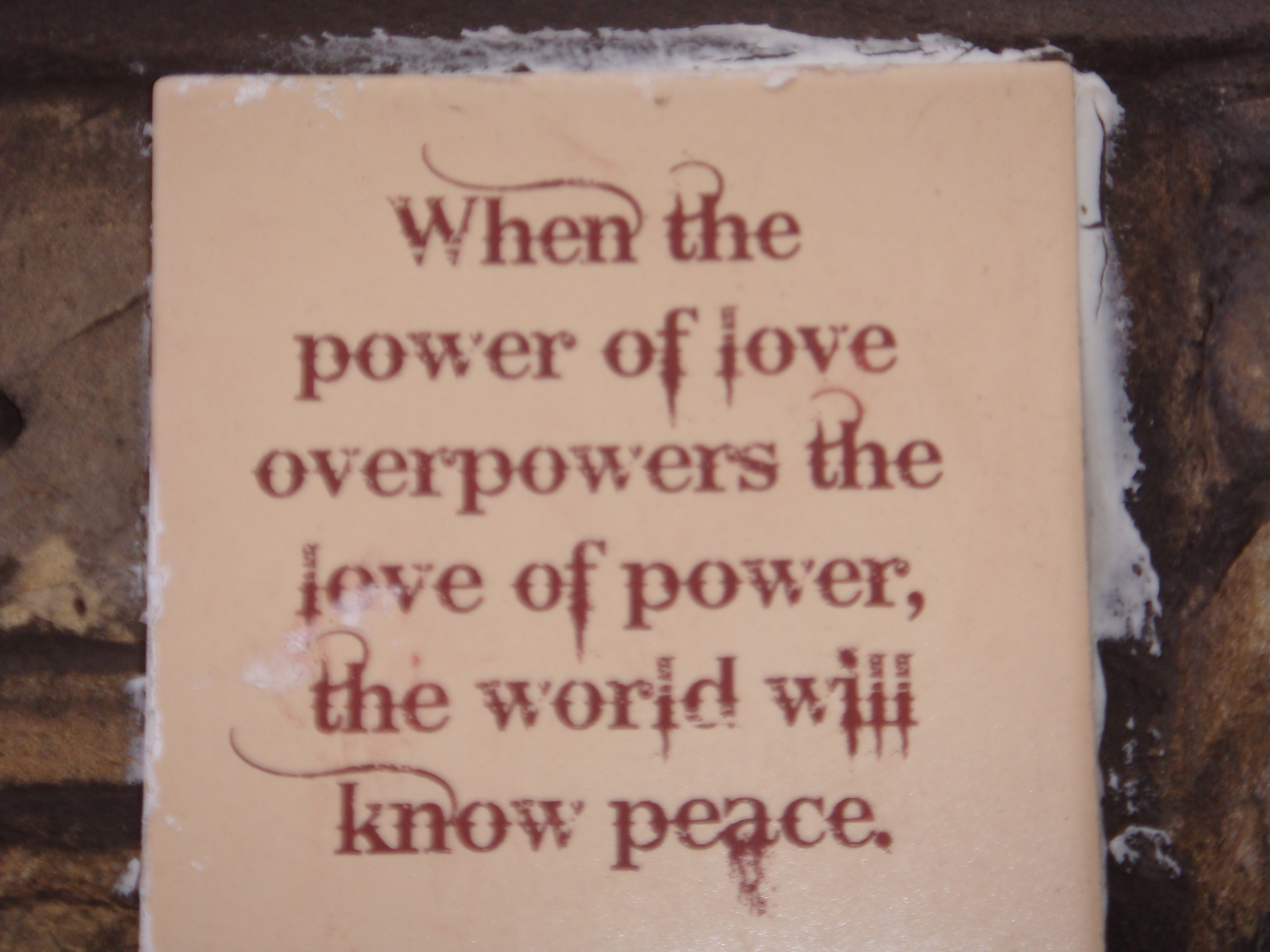 On Valentine's Day , the words of Jimi Hendrix echo to today's people. From Camberwell Green, London.